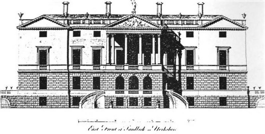 Sandbeck Park, South Yorkshire, original sketch by architect James Paine (1717–1789)